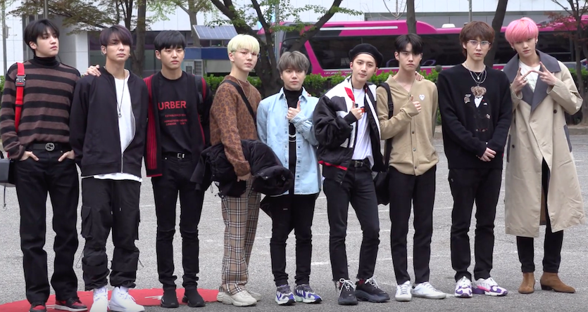 Pentagon heading to KBS for Music Bank on April 19, 2019.